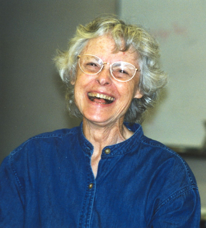 Carol Emshwiller at Clarion West, Seattle, WA. Scanned from a print June 2006.